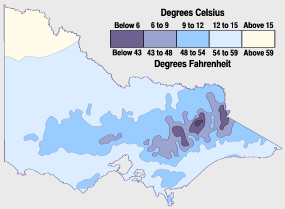 Created by Artemus Jones.